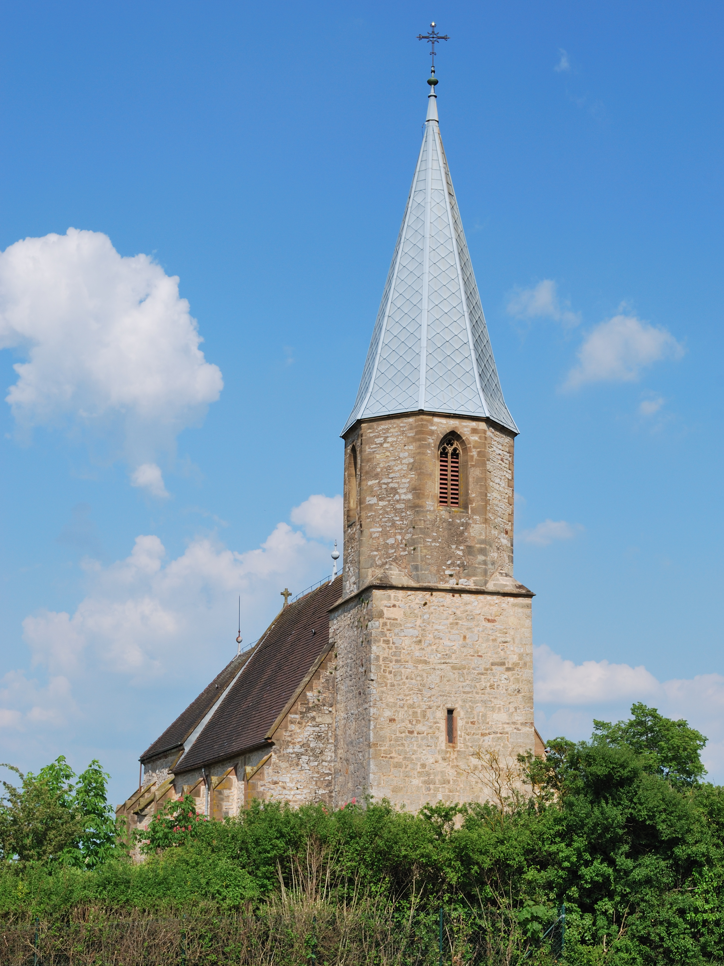 The „Church of Our Lady“ in Unterriexingen, once a pilgrimage and parish church, now a cemetery chapel. View from west.